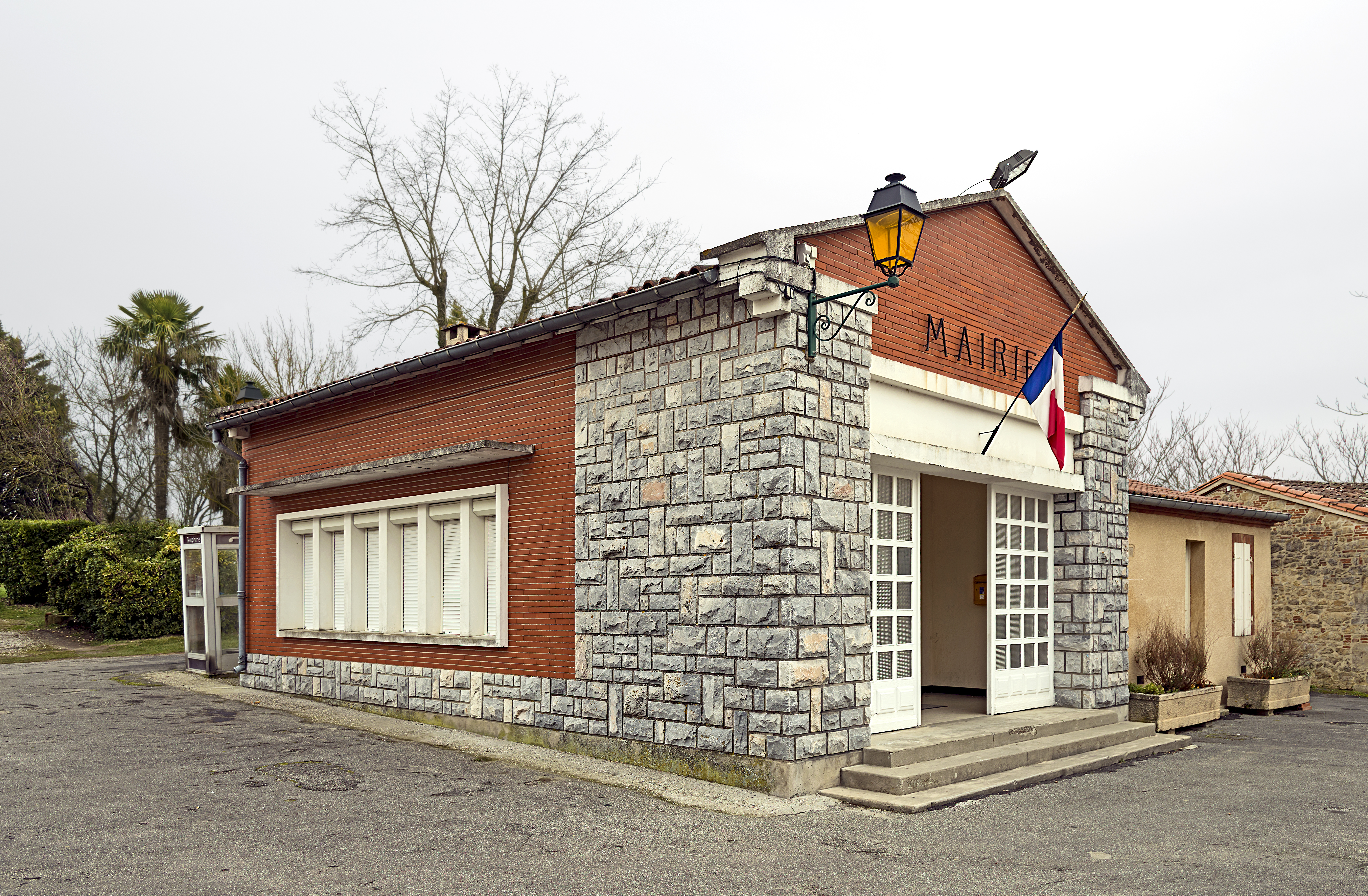 Facade of Mascarville, town hall, Haute-Garonne, France